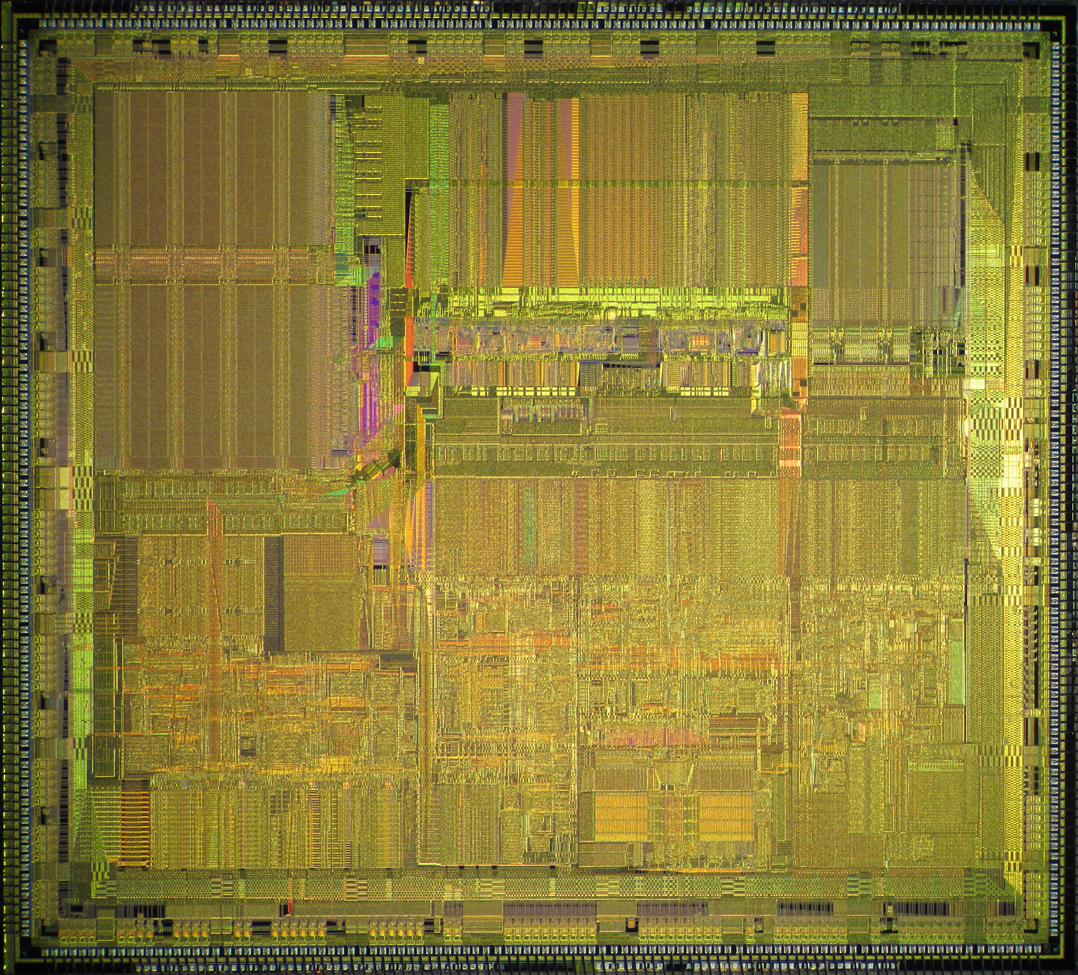 Die shot of DEC NVAX microprocessor with chip number DC246C and part number 21-34457-03.